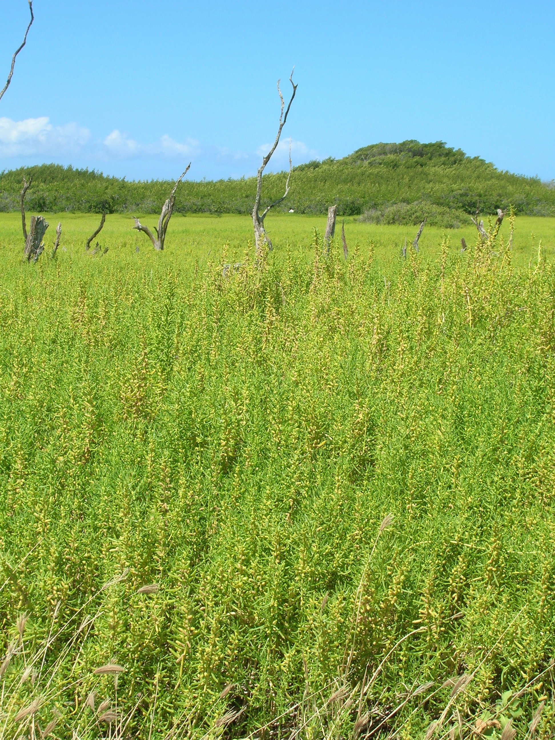 Batis maritima (habit). Location: Molokai, Kipapa